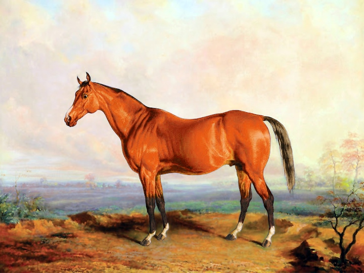 Lexington (1850–1875)